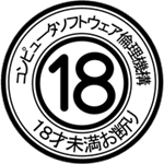 Computer games rating symbol of R-18 (legally restricted) formed by Ethics Organization of Computer Software in Japan. The physical sticker is printed with a surface hologram.